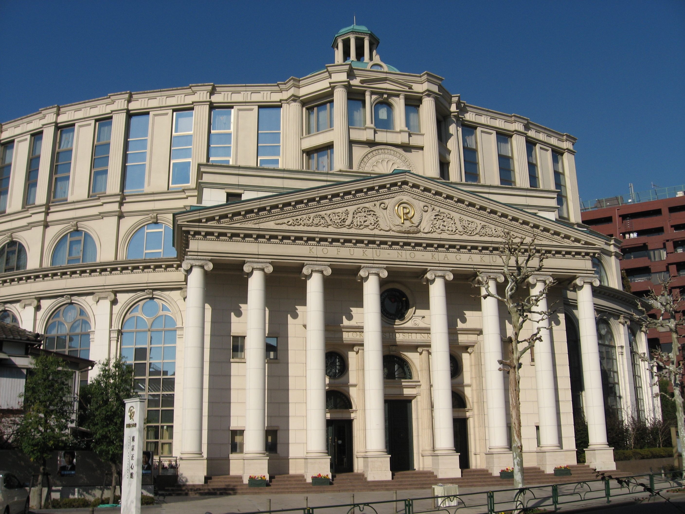 Tokyo Shoshinkan, a monastery of Happy Science